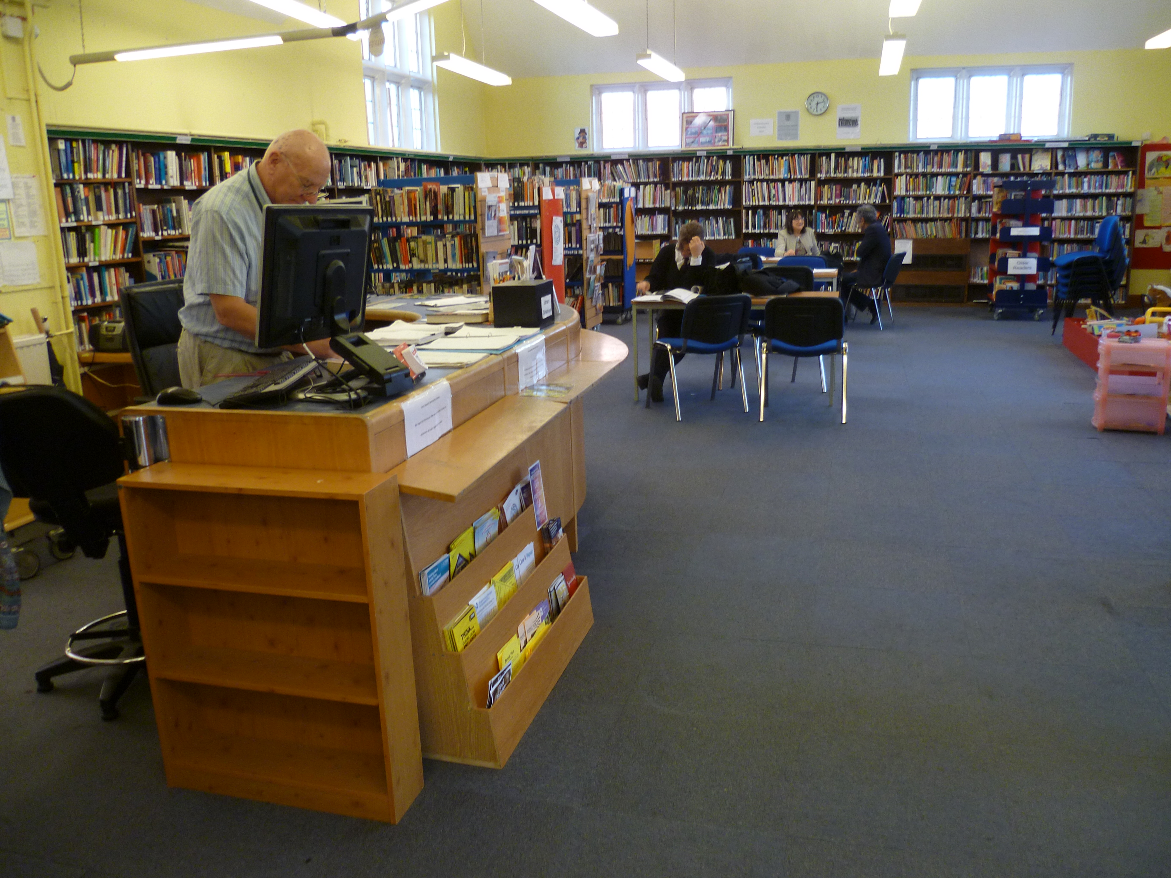 London